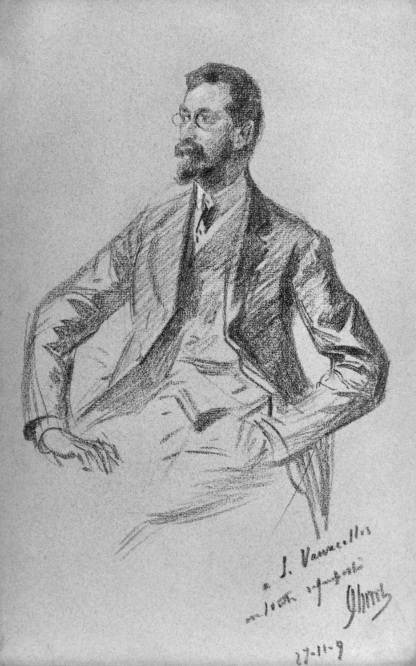 Louis Vauxcelles charcoal on blue paper 35.5 x 22 cm signed, dedicated and datet l.r.: à L. Vauxcelles / en toute sympathie / JChéret / 27.11.9